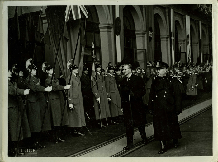 Description: British Prime Minister Neville Chamberlain receives the red carpet treatment in Rome from Italian dictator Benito Mussolini Date: January 1939 Our Catalogue Reference: CO 1069/856 This image is from the collections of The National Archives. Feel free to share it within the spirit of the Commons. For high quality reproductions of any item from our collection please contact our image library.